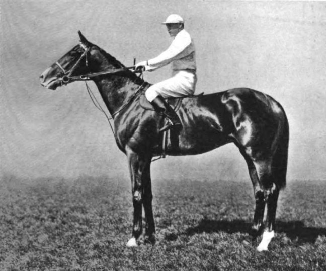 Kennymore, winner of the 1914 2,000 Guineas.